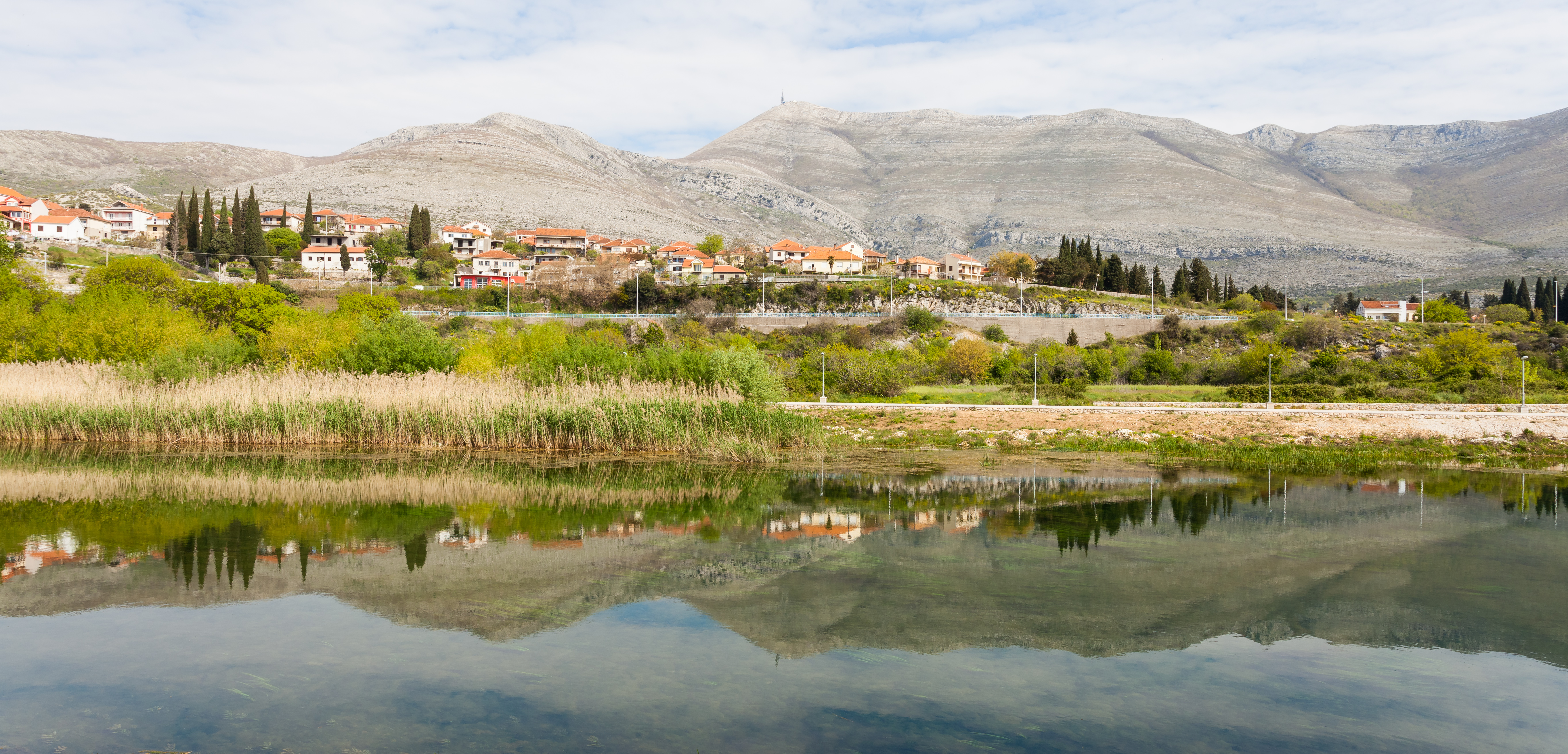 Trebisnjica river, Trebinje, Bosnia and Herzegovina